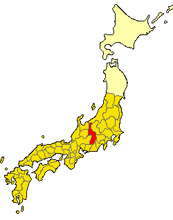 Location map of Suwa Province of Japan in 721. From image:Japan_prov_map721.png.